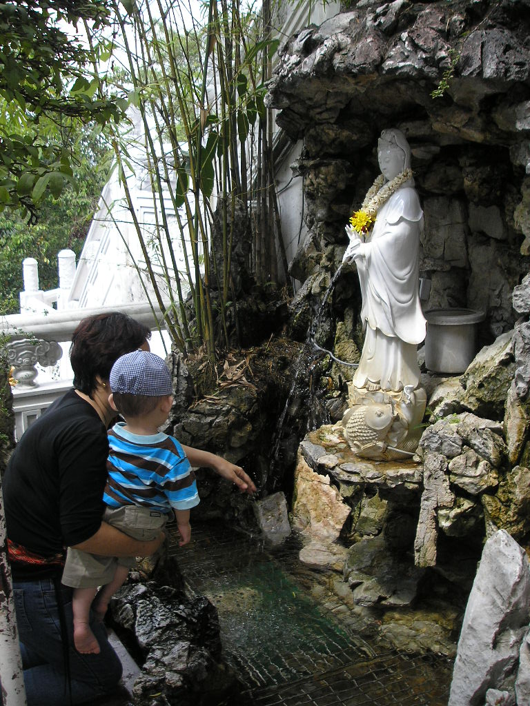 The goddess of mercy kuanyin dispensing water, at the Thean Hou Temple, Kuala Lumpur.